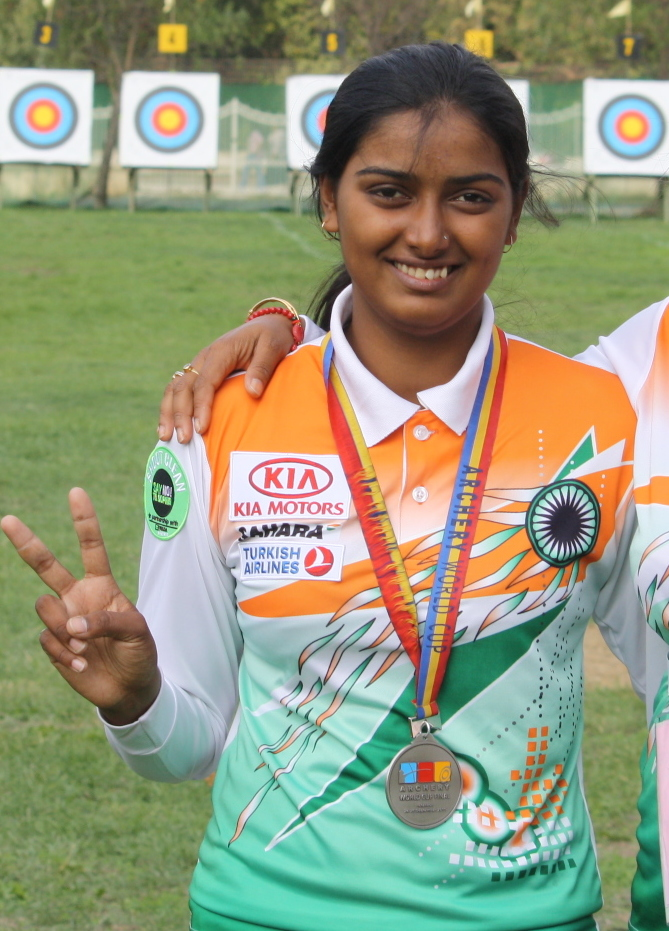 purnima mahato with deepika kumari at world cup final held in istanbul ,deepika won silver